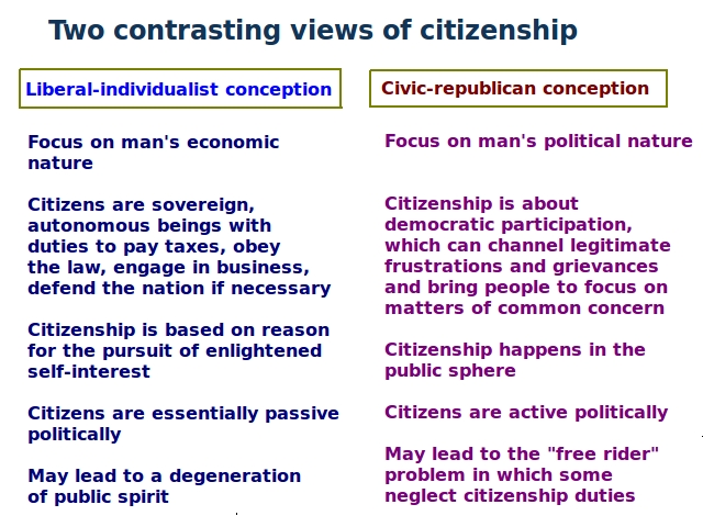 Many theorists suggest two basic viewpoints to examining citizenship. For further information, see the Wikipedia article "History of citizenship" here.